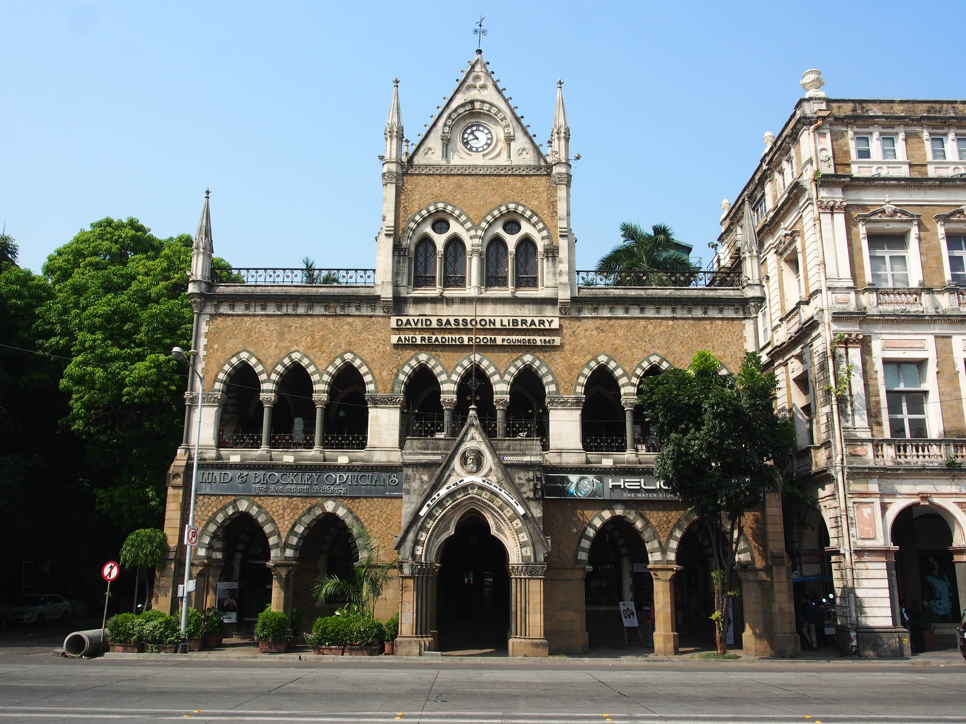 David Sassoon Library, Mumbai